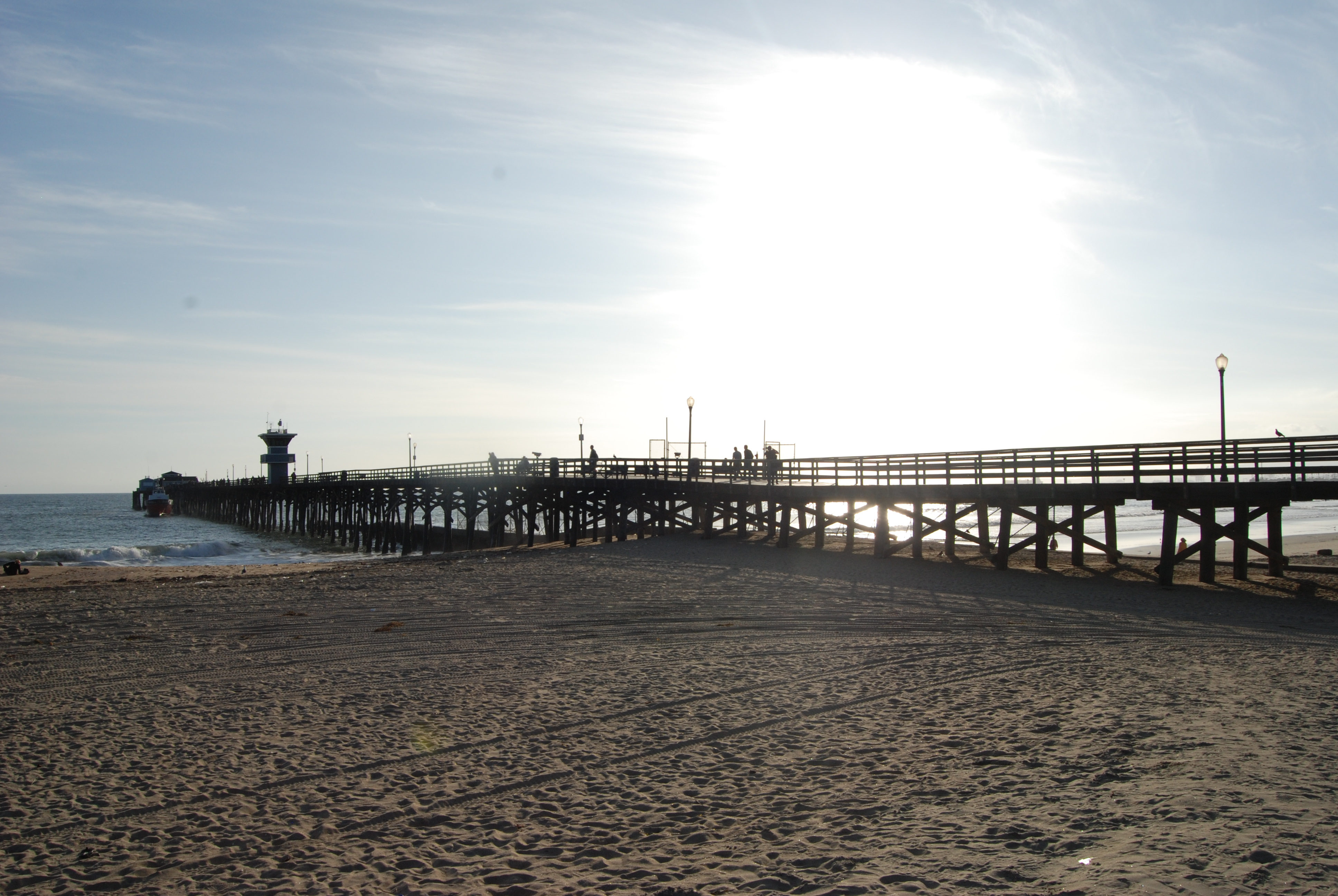 Seal Beach Pier